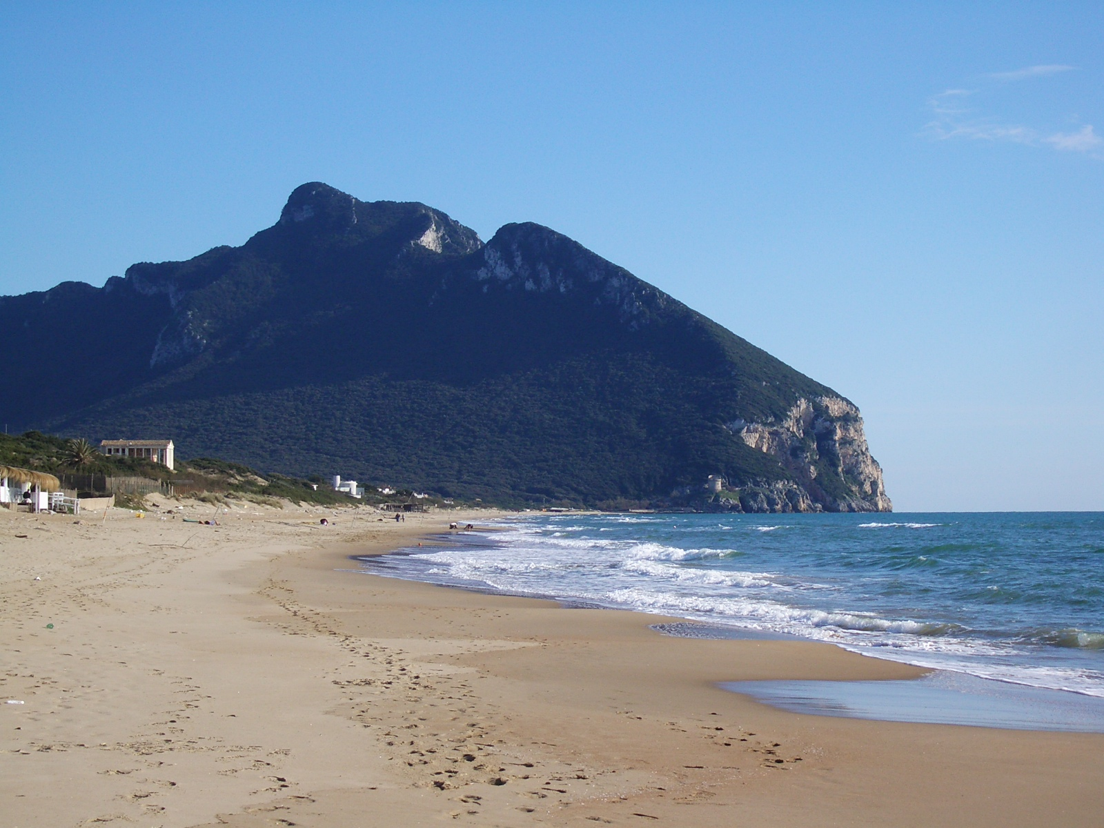 Circeo